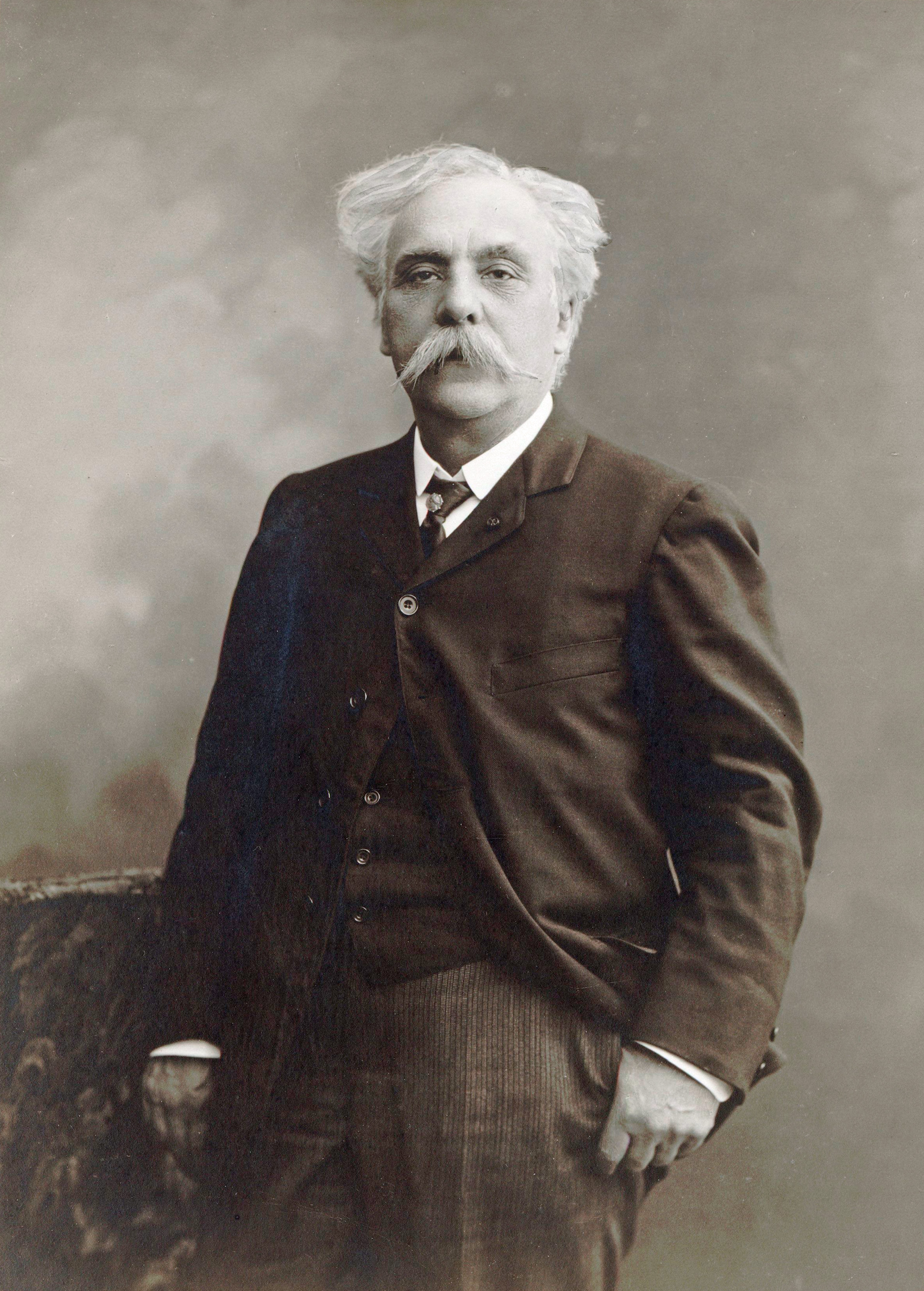 Portrait photograph of the French composer Gabriel Fauré (14 x 10 cm)